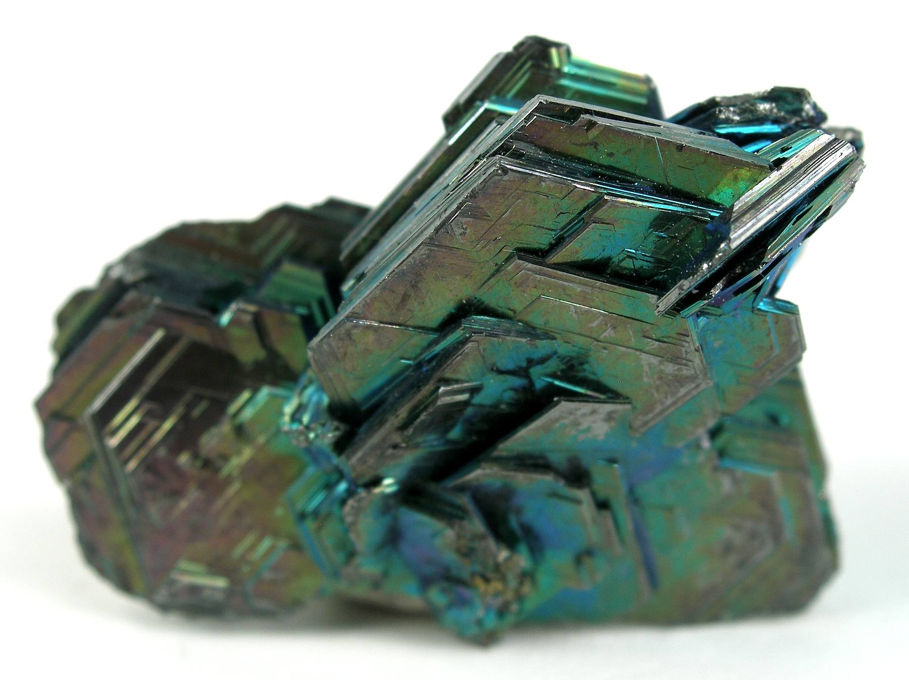 Polybasite Locality: Husky Mine, Elsa, Galena Hill, Mayo Mining District, Yukon Territory, Canada (Locality at ) Size: miniature, 3.0 x 2.2 x 1.3 cm Polybasite These exceptional and uniquely colorful silver species specimens were collected in 1977 by Joe Weinholtzner at a remote location. Rumour (and truth as it turns out !) has it that nearly all were stored in a coffee can at the time and kept that way for decades. Not the best packing job for a collector.... Though many were sold at the time, a number of the largest and finest pieces were kept back and many of these came to market through Mark Mauthner, in 2004-2005. The polybasite crystals, of which this is one of the larger and more robust examples that I have seen for sale from the locality, have been previously very scarce on the market in any size above thumbnail. Most are thin plates, whereas this is a robust, 3-dimensional cluster. The specimens feature a very attractive purple/blue/red/green iridescence, which sets them off from other worldwide localities for these species (both the polybasite and stephanite from here have the coloration). The mine is defunct and despite searching, no more have been found here in 30 years now. This phenomenal specimen is one of the very best Husky miniatures I have seen for sale. It is from the collection of Dr. Mark Mauthner. The display face has no damage, save a (small) ding at the top of the left cluster, and it is otherwise in good shape. It is contacted on the bottom edge and a bit on the backside, but again is nearly pristine where it matters most. The color is spectacular: a metallic mix of iridescent purple, red and blue hues (much more obvious in person than the pictures indicate). Individual crystals reach 1.7 cm.